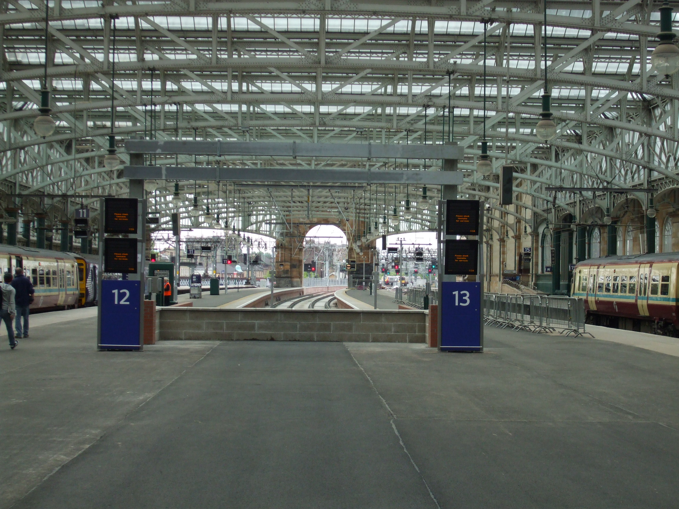 The new platforms 12 and 13 at Glasgow Central in the first week aftering bringing into use.